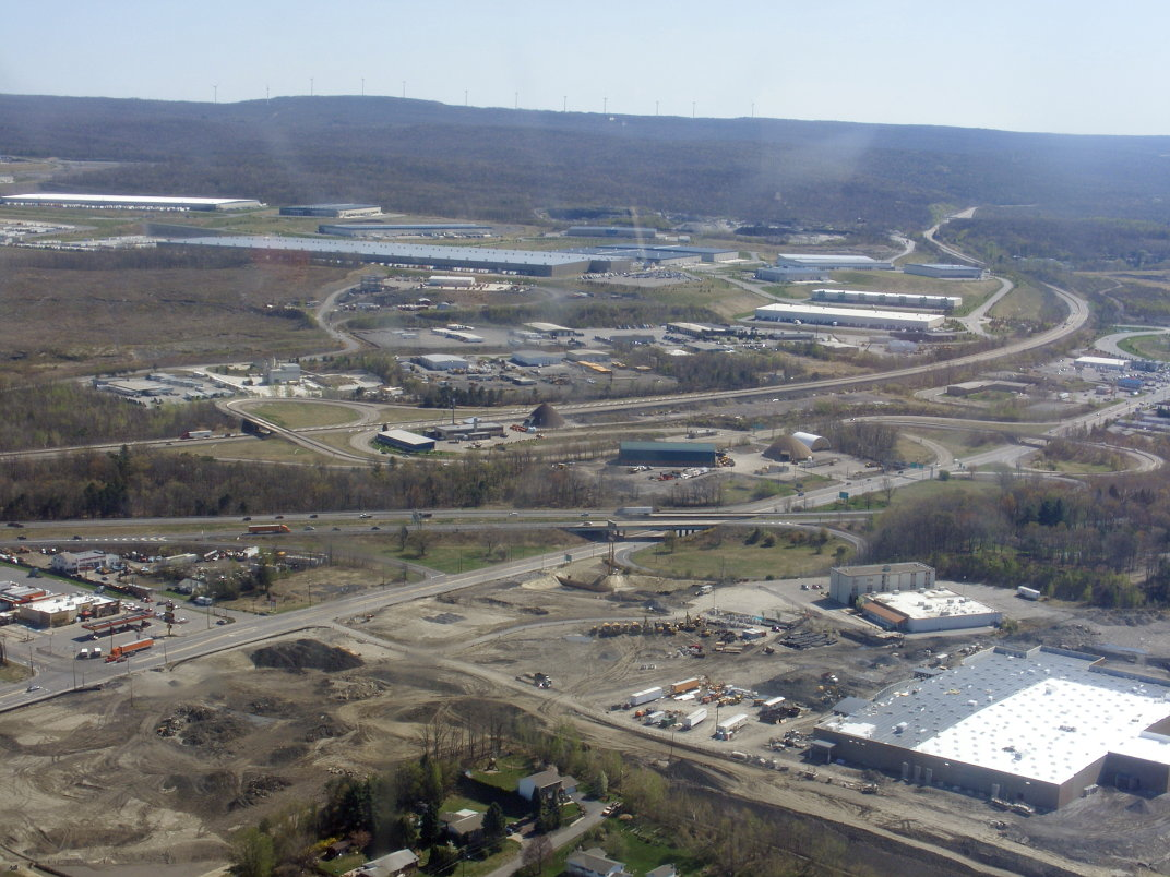 Aerial view of Pittston Township in the area of I-81/I-486 interchange